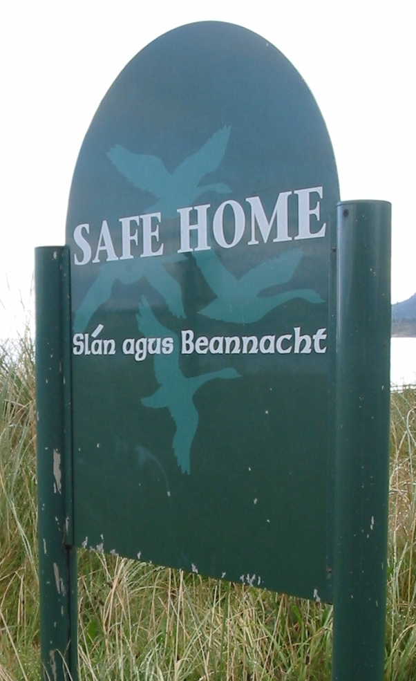 Safe home road sign in County Antrim